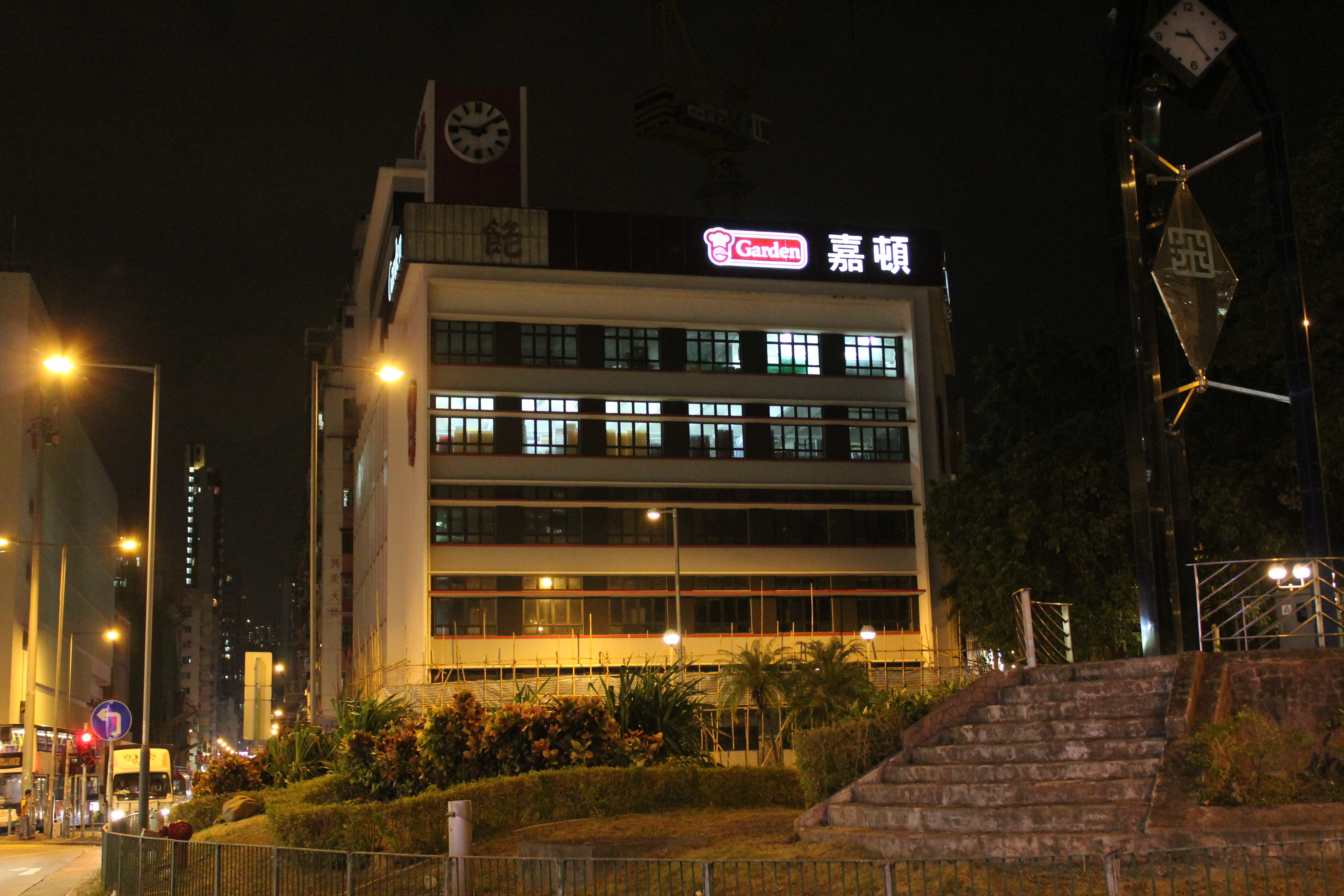 The Garden Centre was built in 1935, it was once the tallest building in Sham Shui Po. The photo was taken in October 2018, after the reconstruction of the building announced. The ground floor was already surrounded by bamboo scaffolding at that time.